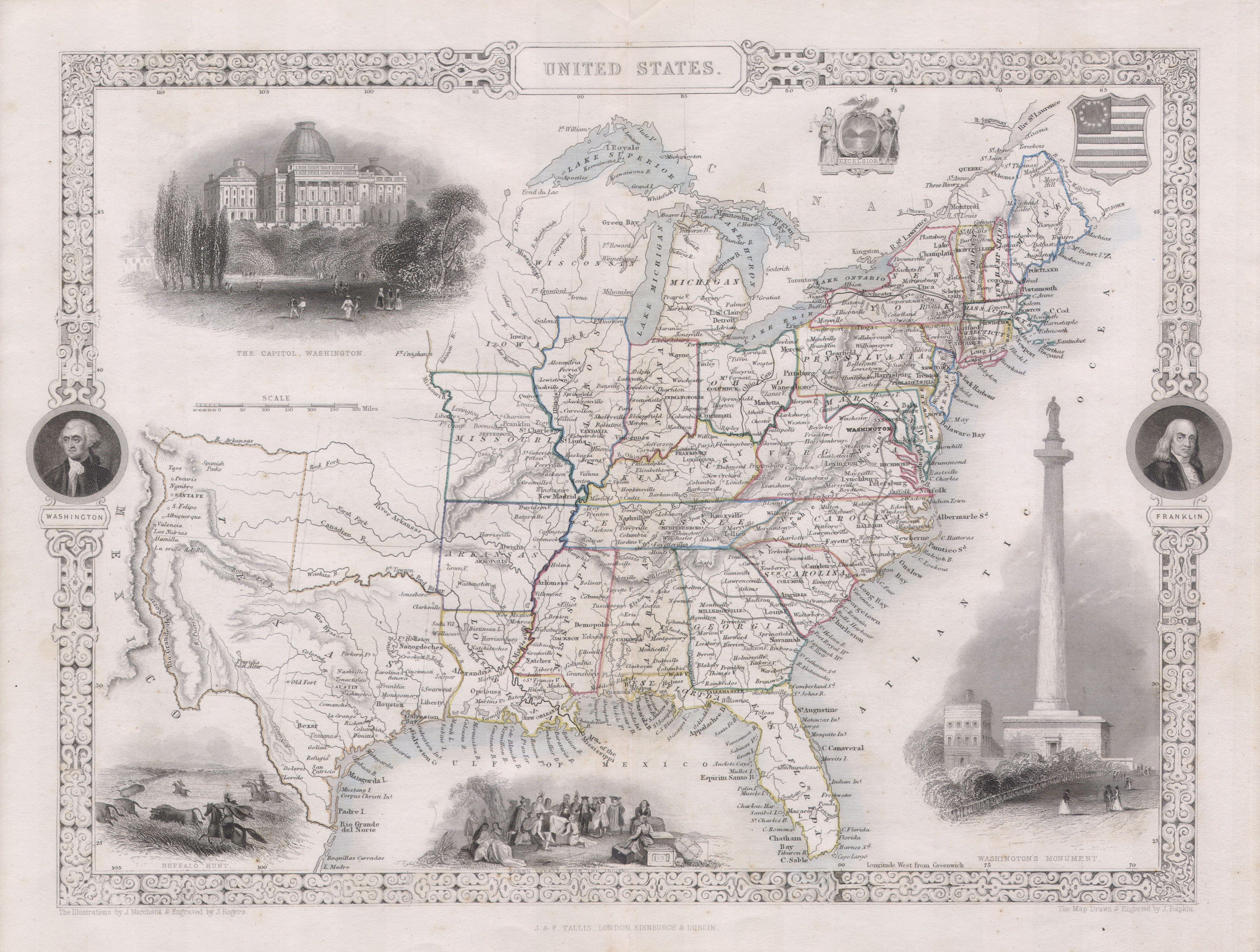 This is John Tallis’s highly desirable 1850 Map of the United States. This is the earliest variation on this map that includes Texas as a state. Herein Texas is depicted at near its fullest extent including both Santa Fe and but excluding the Green Mountain extension in the Northwest. Wisconsin and Iowa are shown with amorphous boundaries. Offers several beautiful vignettes depicting the Baltimore Washington Monument, The Capitol in Washington D.C., Penn’s Treaty with the Indians, and an American Indian Buffalo Hunt on the Great Plains. The upper right quadrant features a U.S. flag shield and an Excelsior seal. The ornate border includes the portraits of Washington and Franklin. Undated, but the form of Texas allows us to positively date this to the early 1850 issue of Tallis’s valuable map.